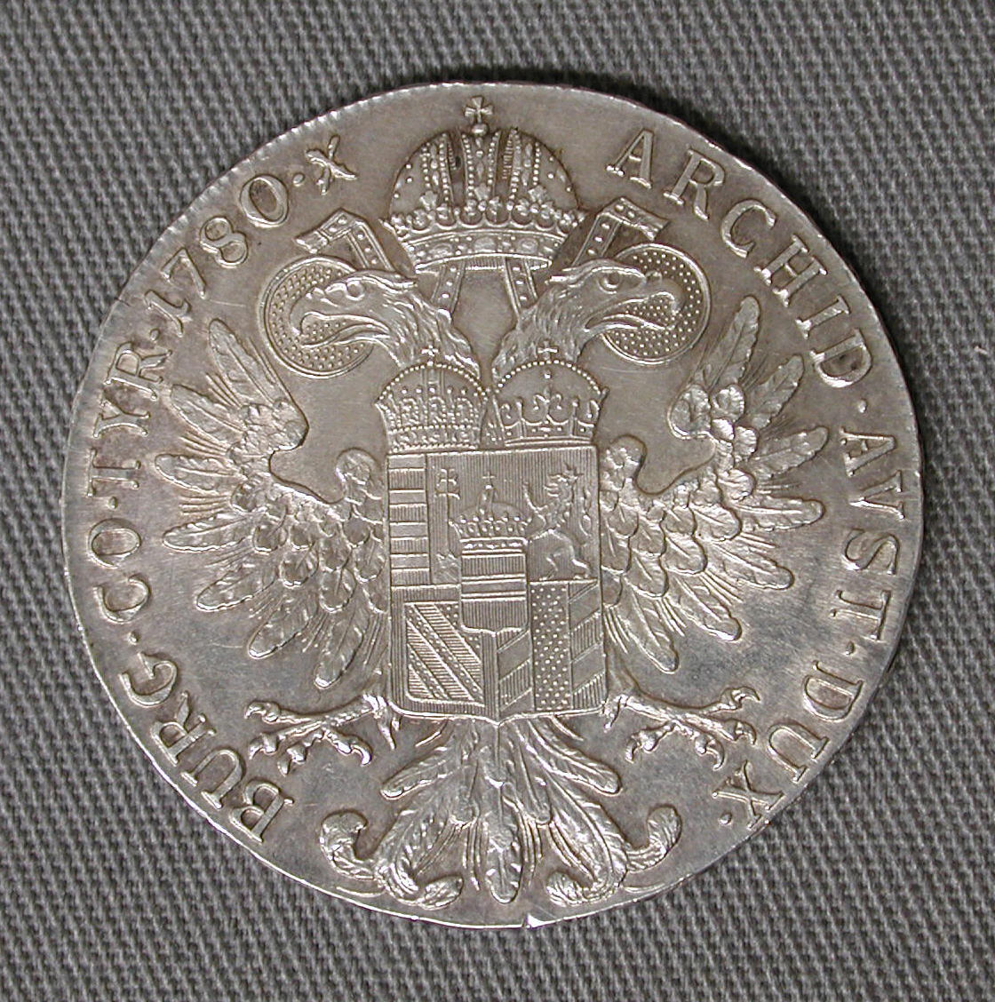 Austrian; Thaler; Coins